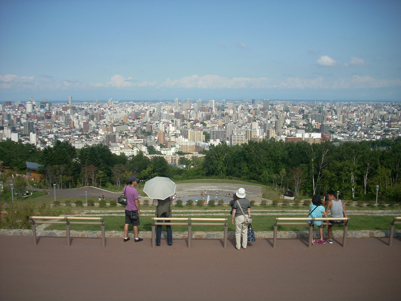 Asahiyama Memorial Park, Chuo-ku, Sapporo, Hokkaido, Japan